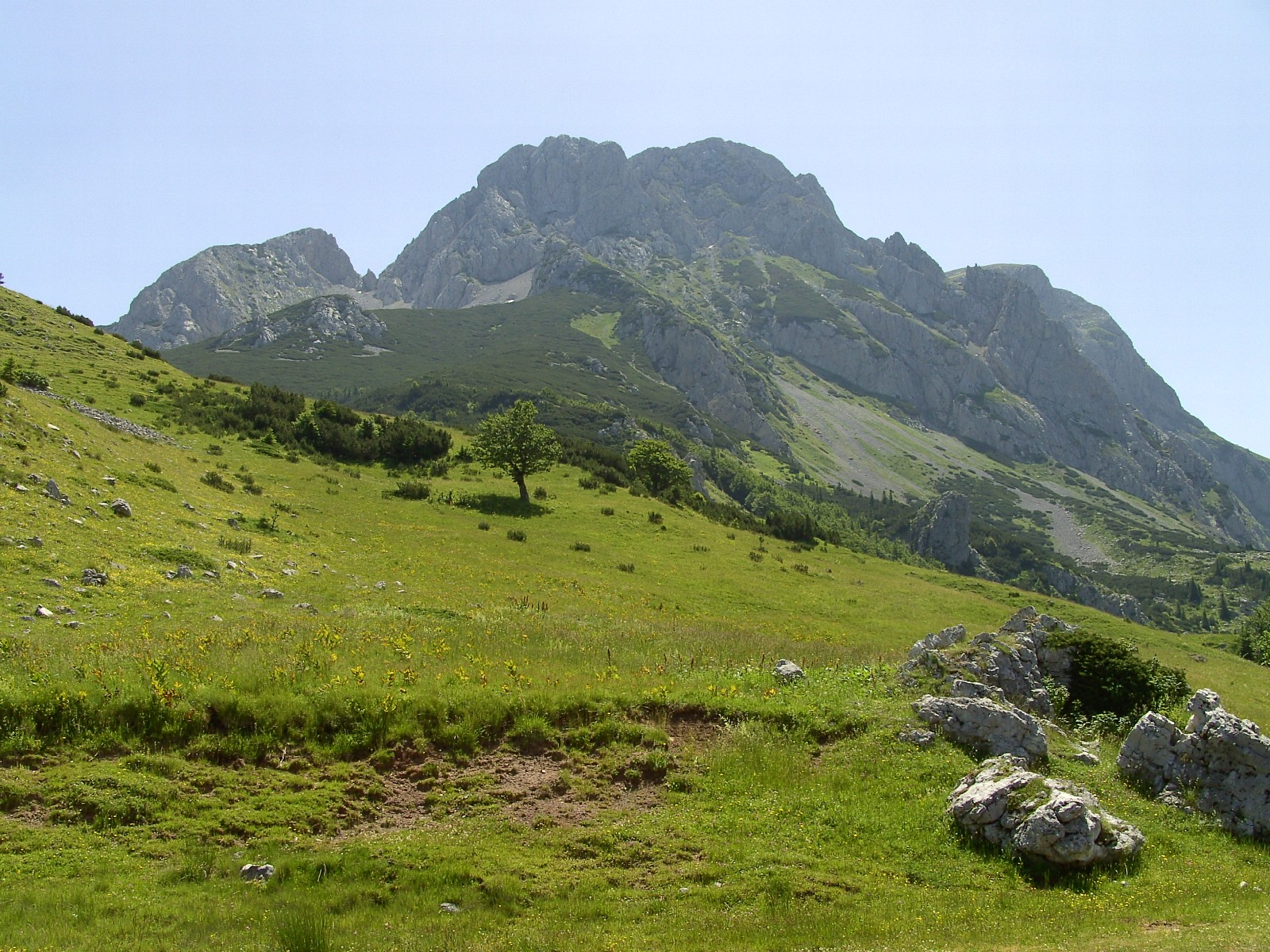 Maglić, Bosnia and Herzegovina